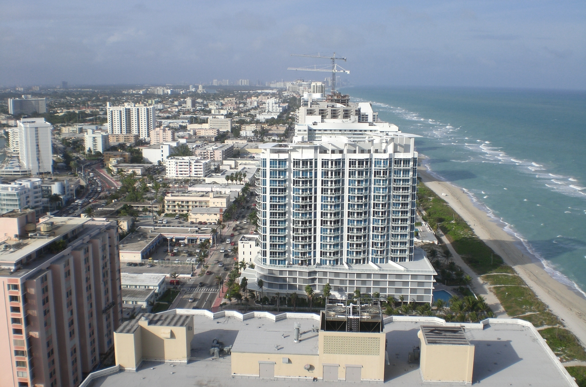 Digital photo taken by Marc Averette. View of 'North Beach' side of the city of Miami Beach on 12/22/06.